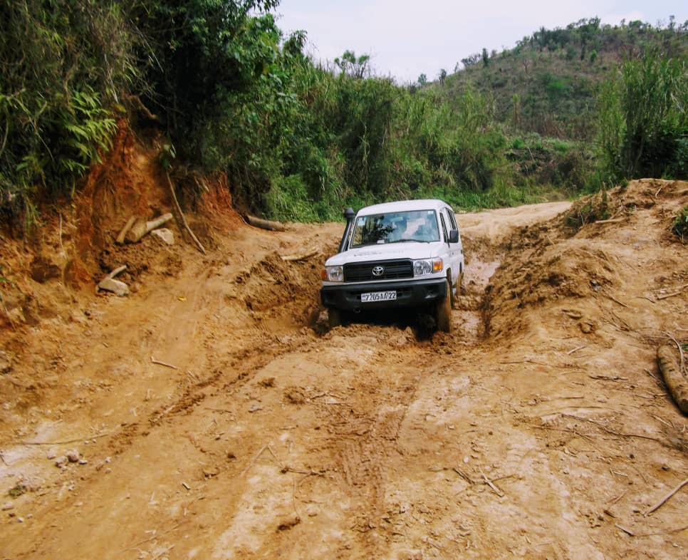 on this day me and my colleagues got stuck and had to get out of the car to push it and by the it passed through we were all covered in mud. This is an image with the theme "Africa on the Move or Transport" from: Democratic Republic of the Congo